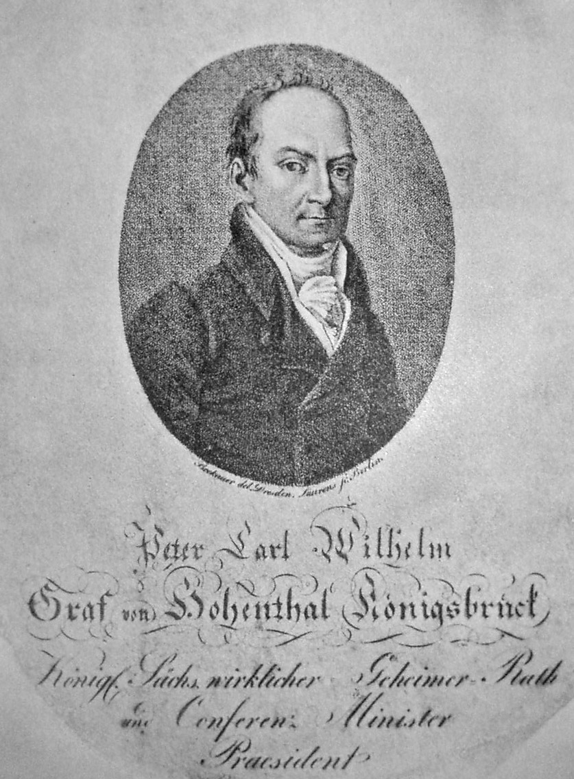 Peter Carl Wilhelm Graf von Hohenthal-Königsbrück (1754-1825)